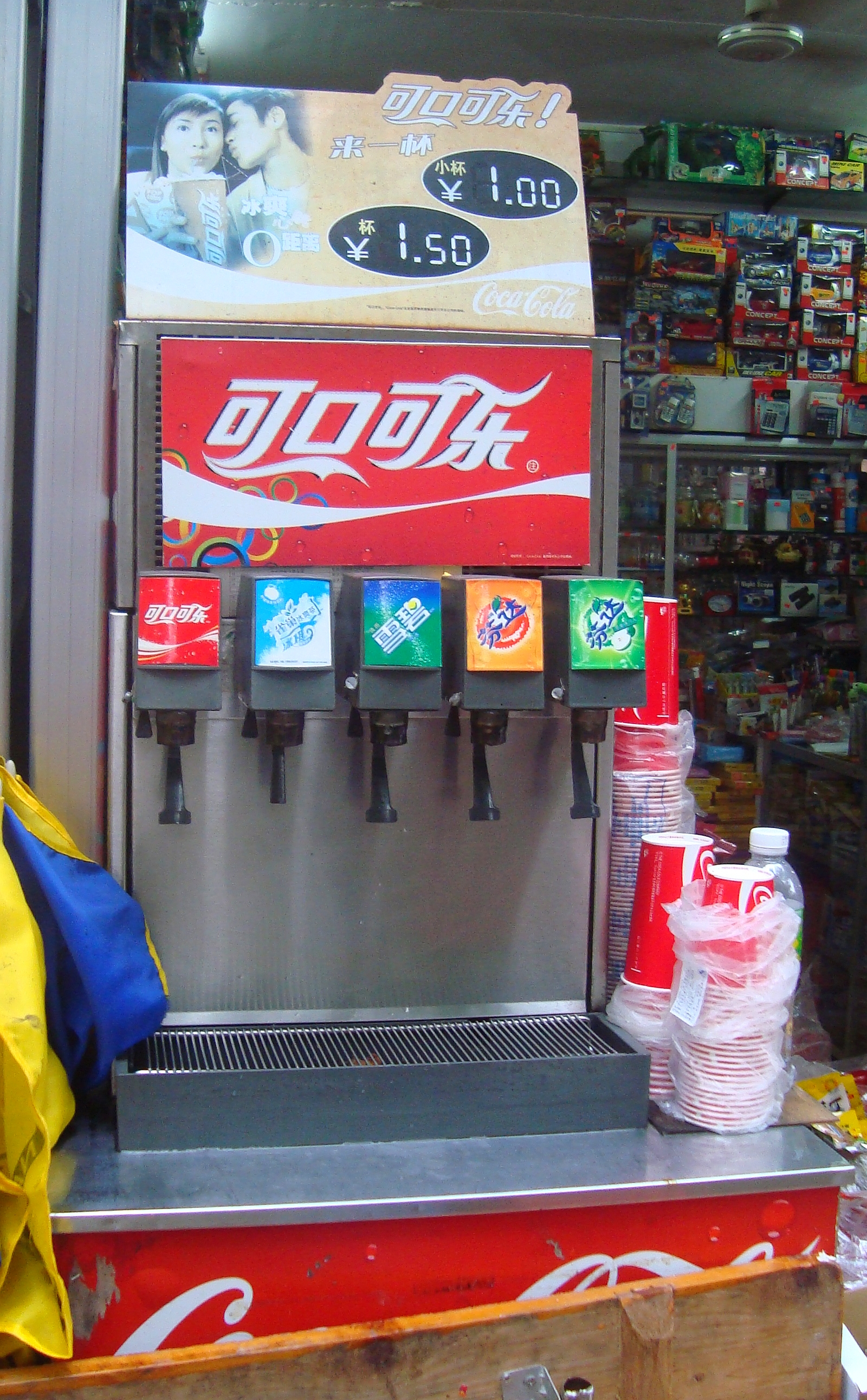 A typical soda fountain in Haikou, Hainan, China. The advertisement above indicates a small cup of soda priced at 1 yuan and the larger size at 1.5 yuan.